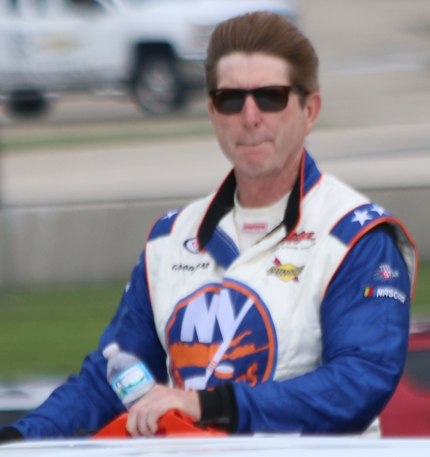 NASCAR driver John Graham during the driver's introductions lap at the 2017 Johnsonville 180 race in the Xfinity Series race at Road America.